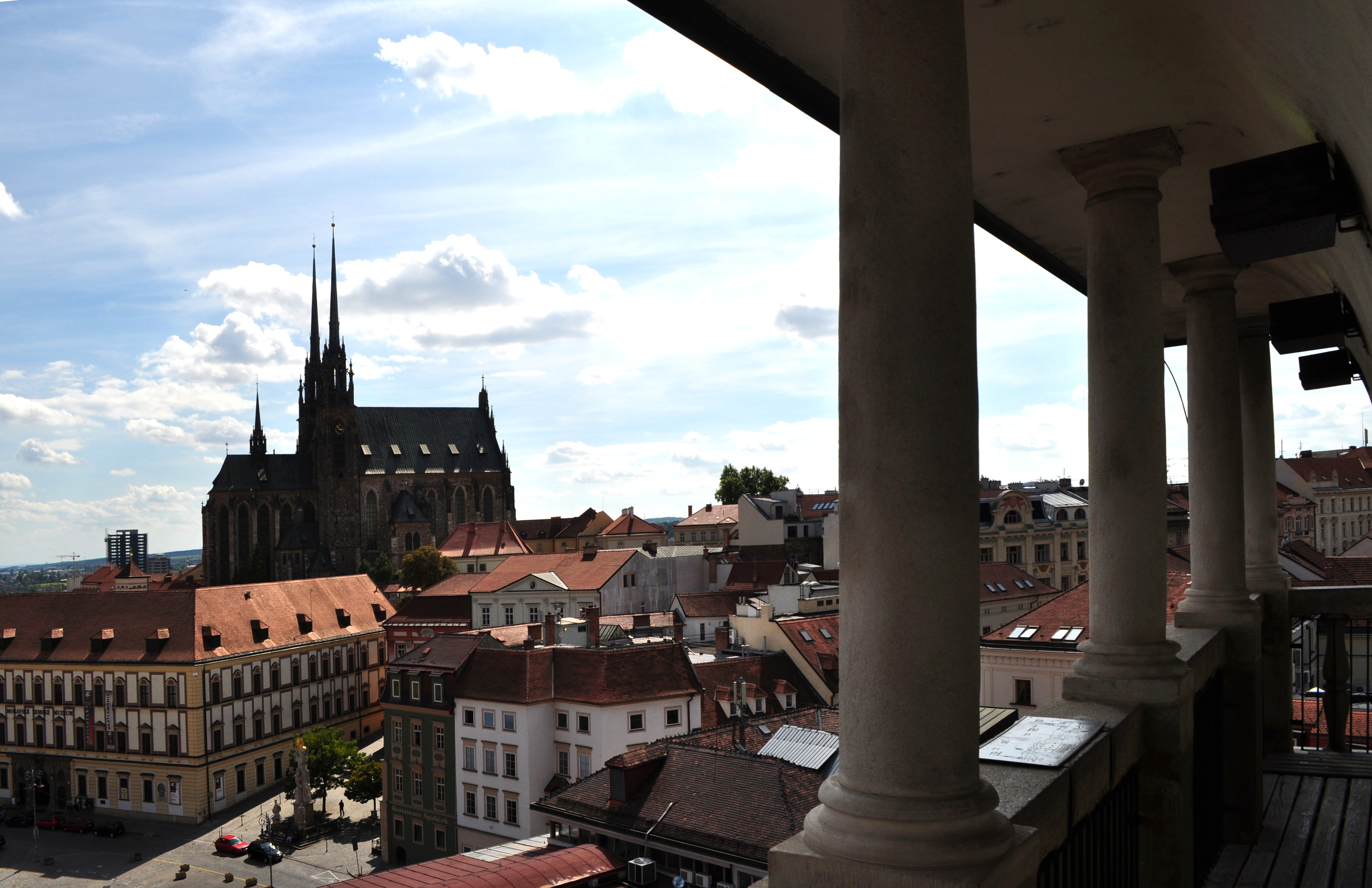 Cathedral of Saints Peter and Paul in Brno